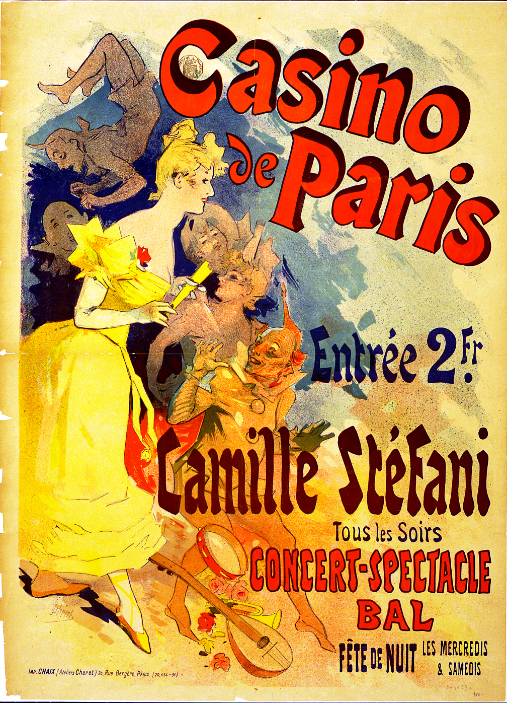 Casino de Paris poster, by Jules Chéret.